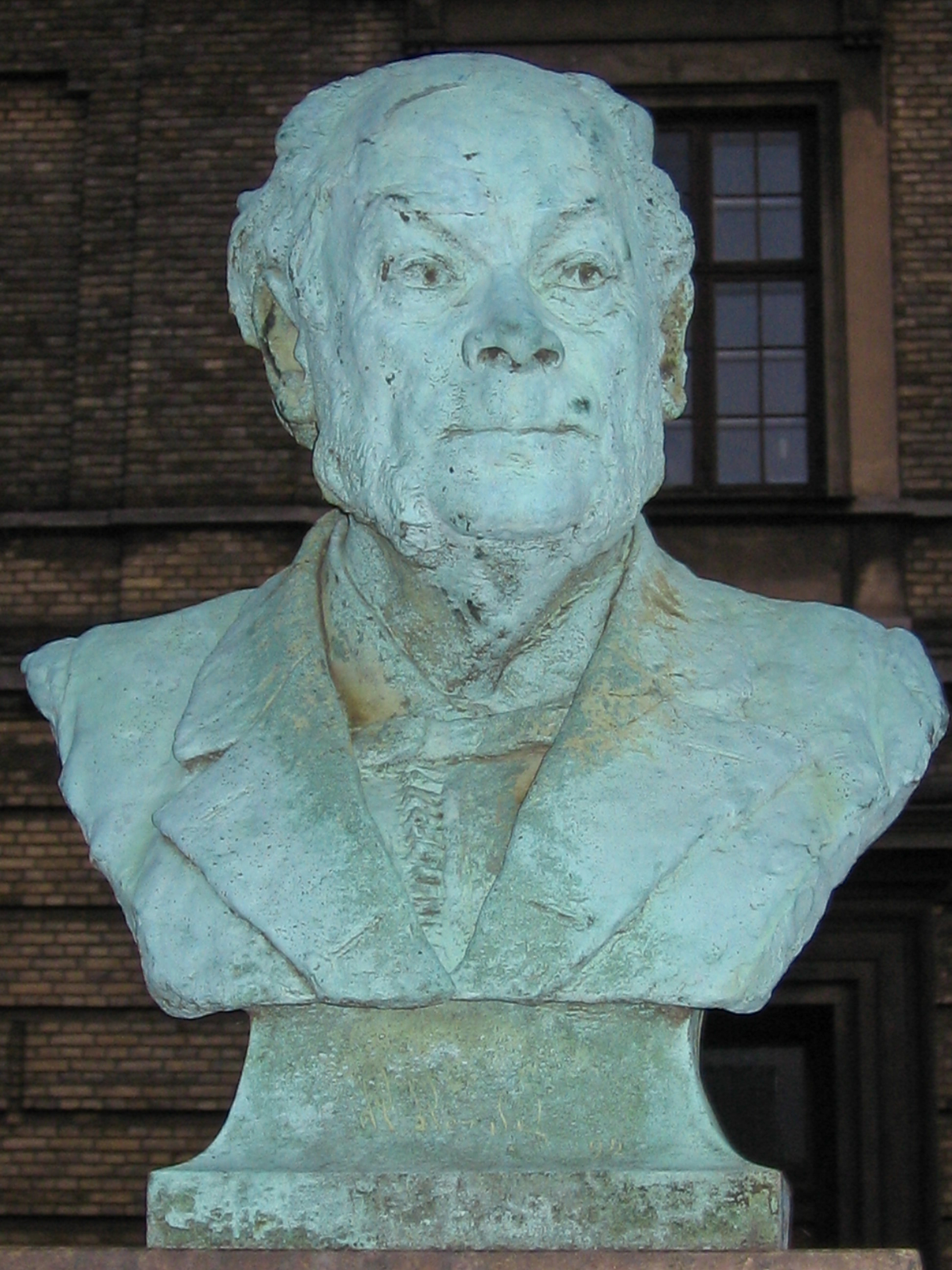 Bust of physician Rudolph Bergh (1824-1909) - made by Peder Severin Krøyer (1851-1909) and developed by the Municipality of Copenhagen in 1909 on behalf of friends and colleagues. The bust is set in the courtyard in front of the old Rudolph Bergh Hospital in Tietgensgade, Copenhagen.